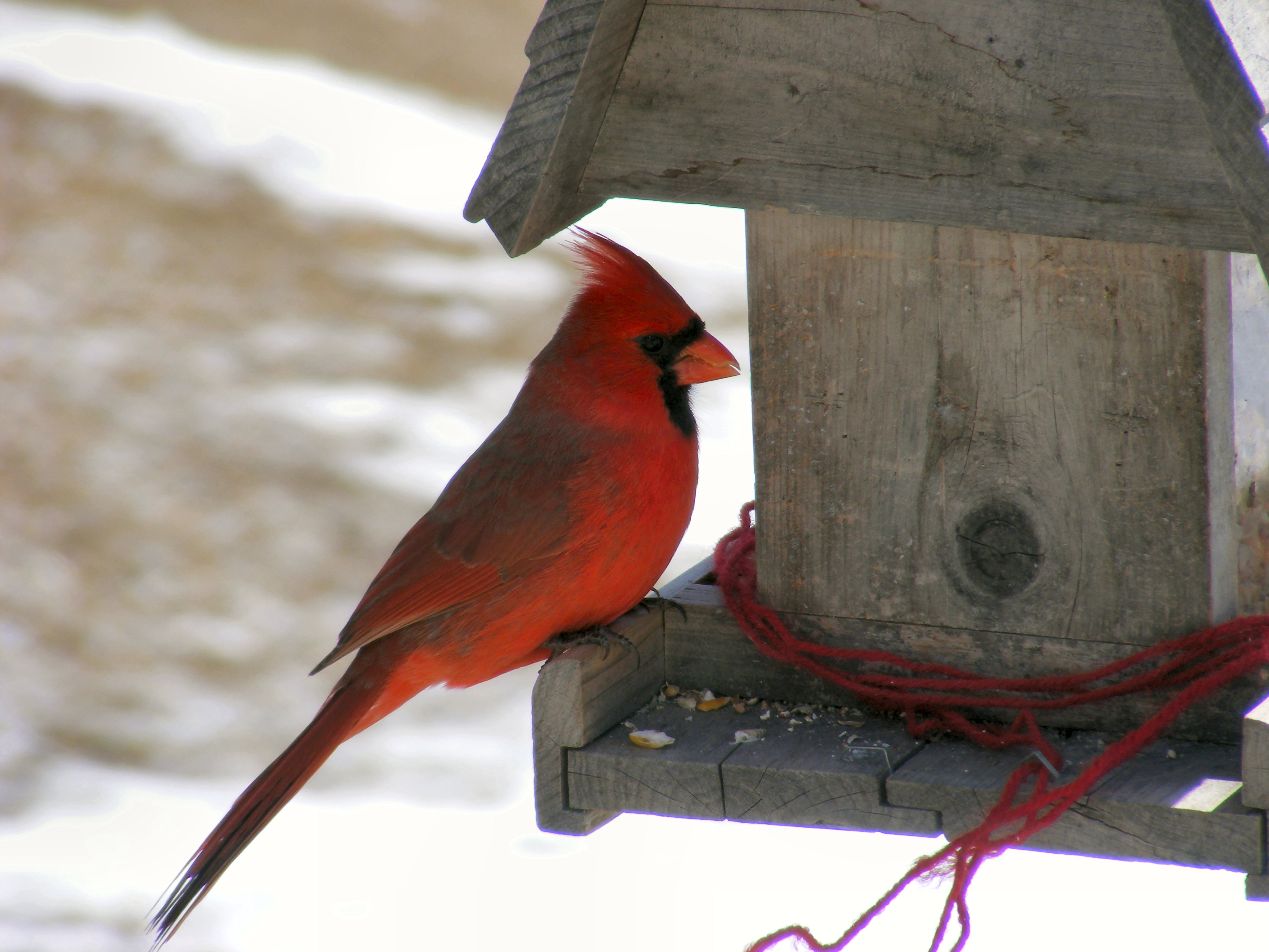 Male Northern Cardinal (Cardinalis Cardinalis) perched on a bird feeder